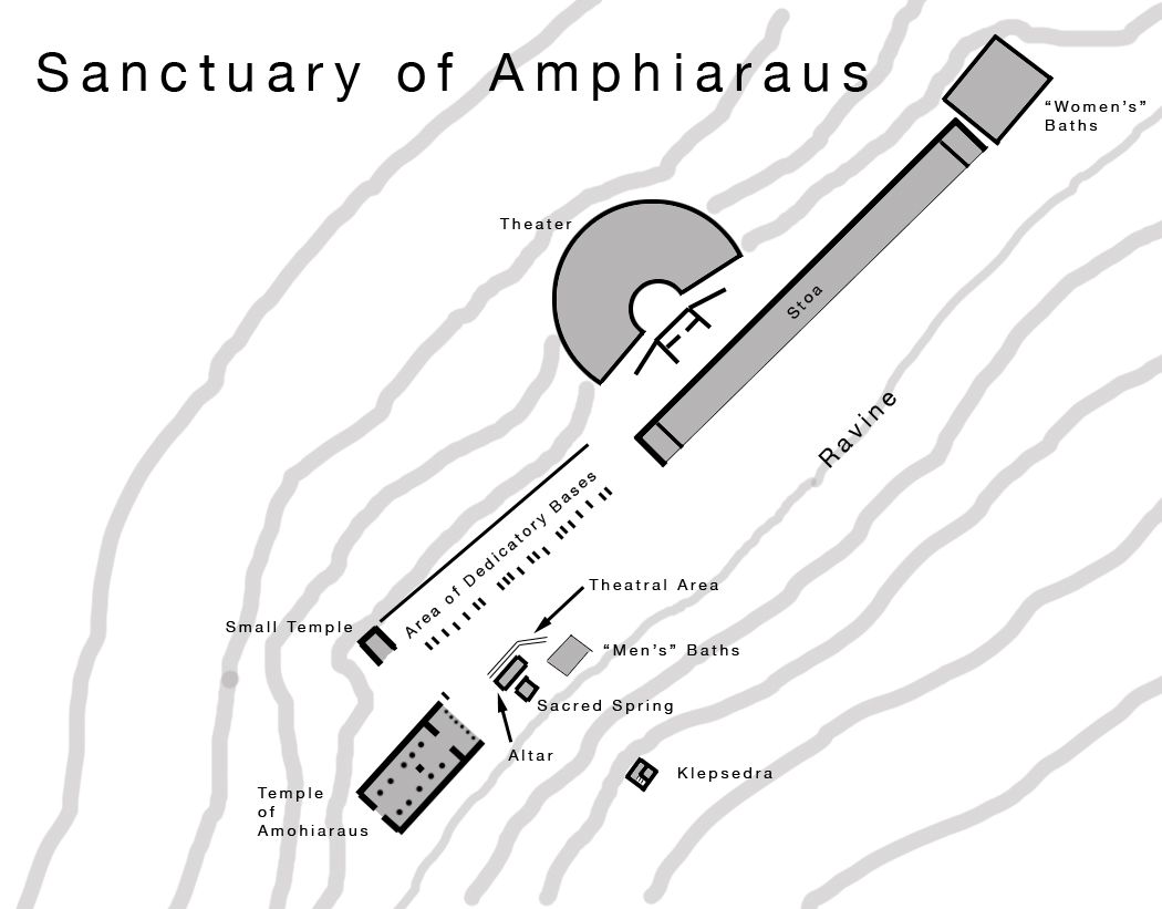 Plan of the Sanctuary of Amphiaraus. J. M. Harrington, self-made image